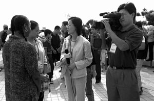 Quindao, 2002